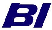 Se trata del logotipo que manejó la desaparecida aerolínea norteamericana Braniff International, desde 1965 hasta el fin de sus días en 1982.